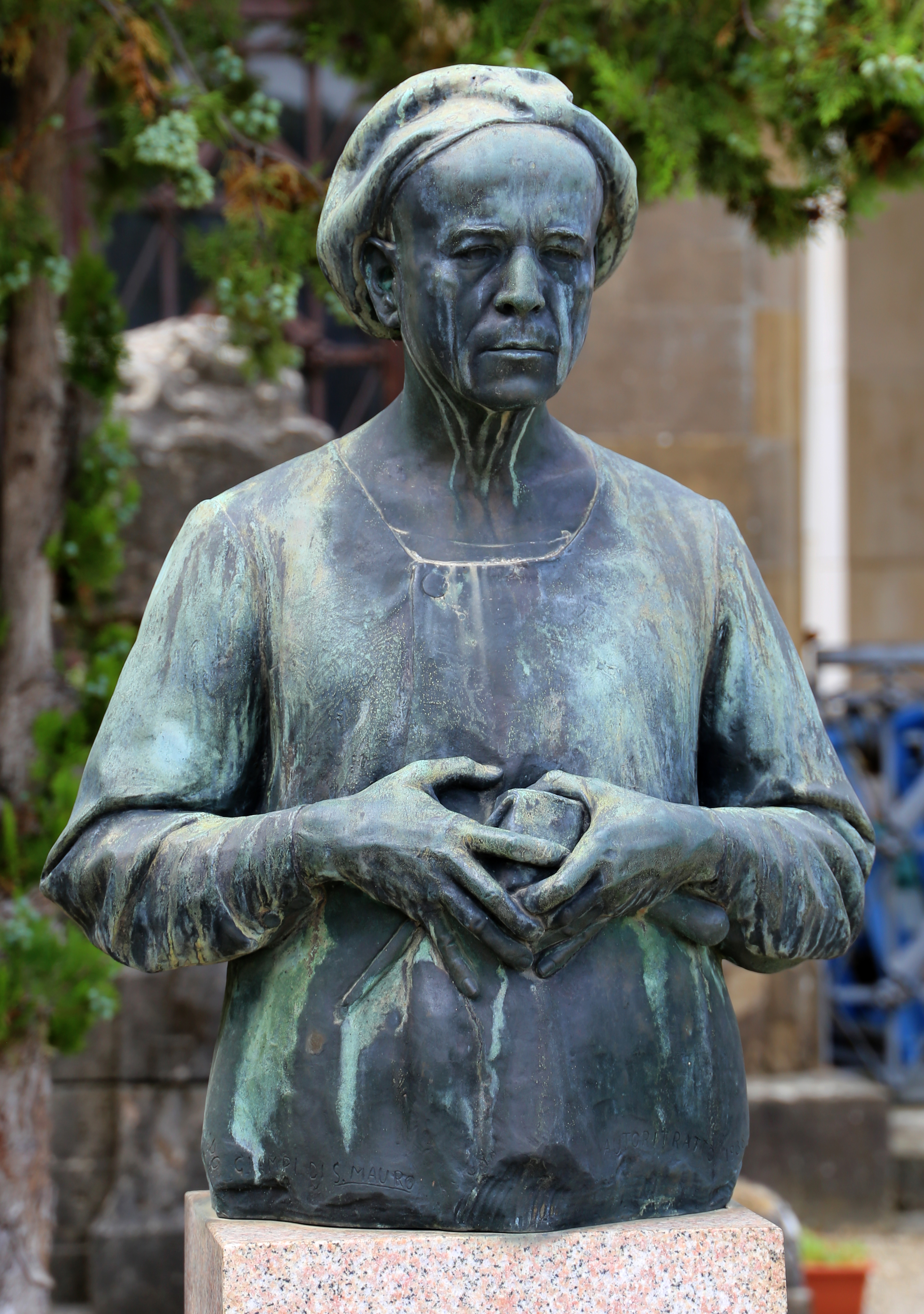 Porte Sante cemetery